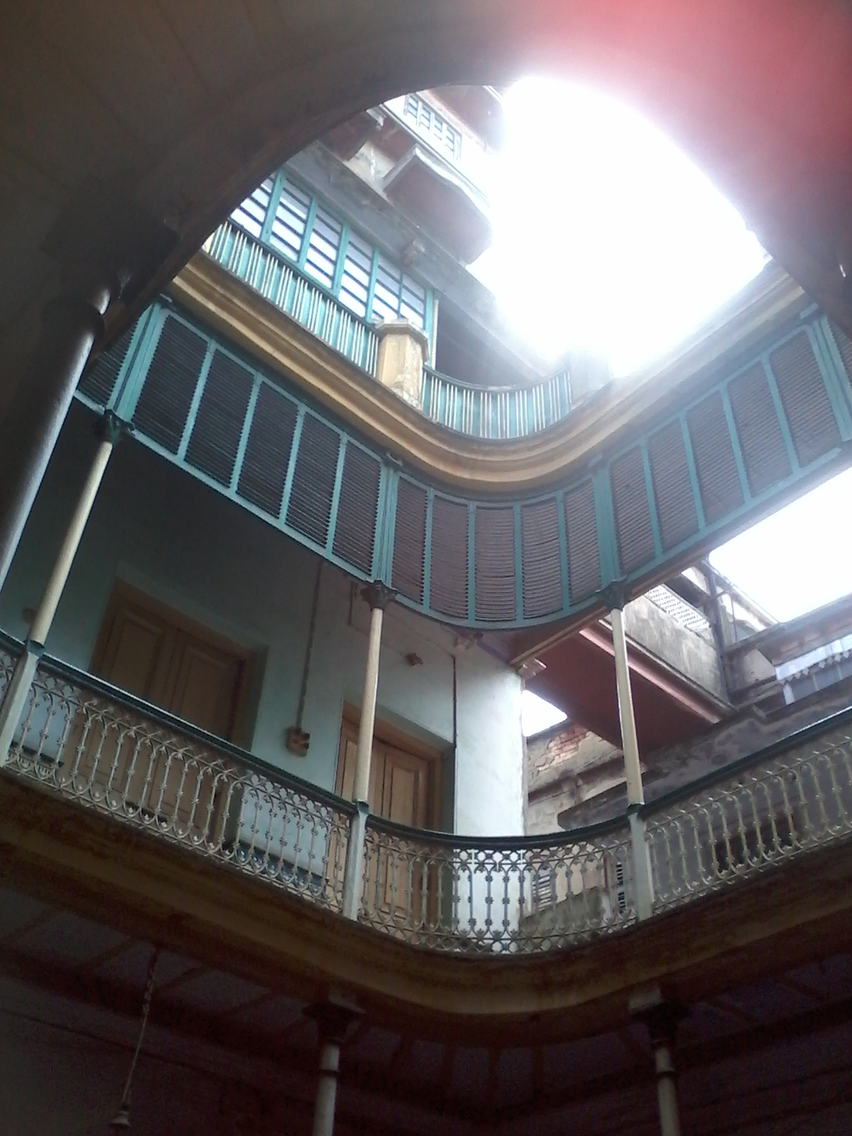 Photograph during Wiki Photo Walk in Kolkata 2019